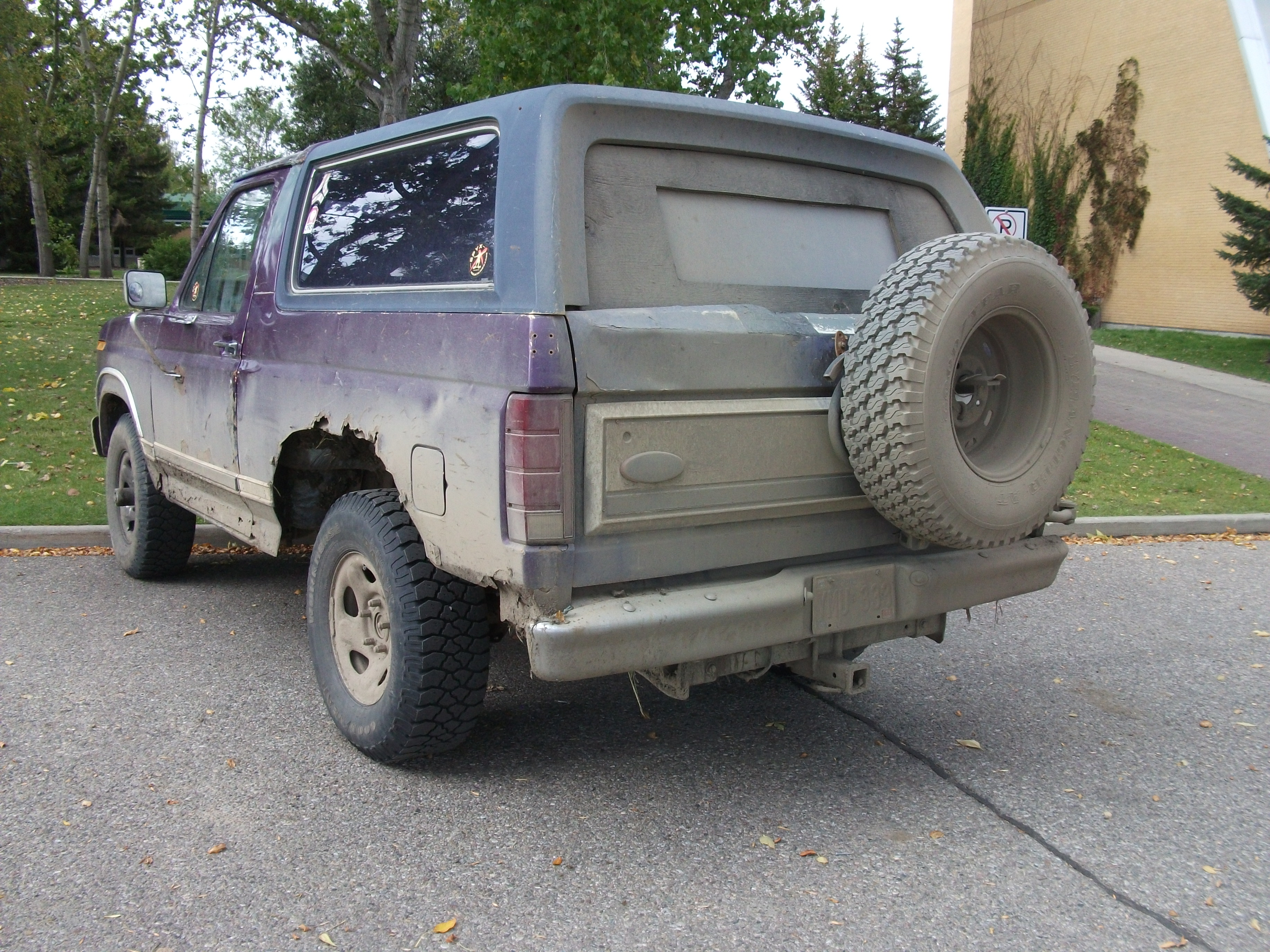 This Ford Bronco has had an interesting repair job done on its back window.